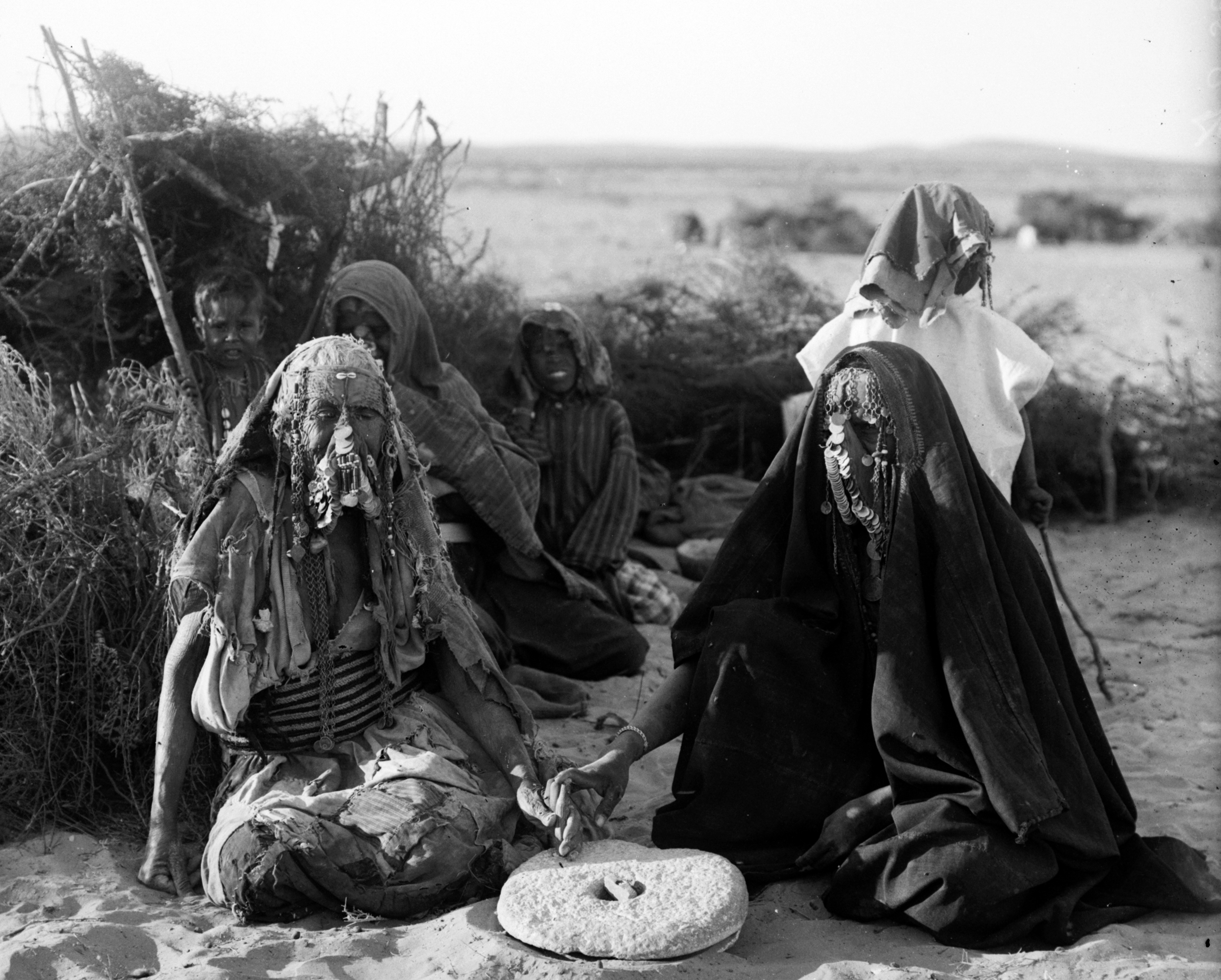 Women of Beersheba, Ottoman Palestine